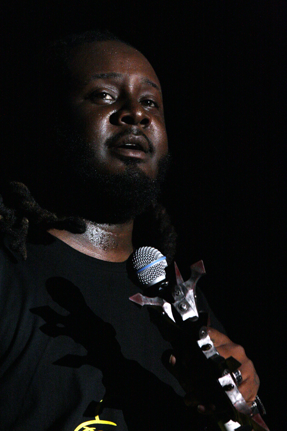 T-Pain at Supafest 2012, at ANZ Stadium at Homebush, Sydney, Australia.